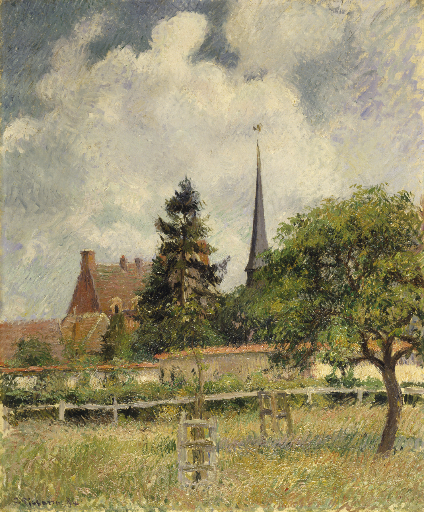 From 1884 until his death, Pissarro lived in relative isolation in Eragny-sur-Epte, a village in northwestern France. Though he participated in all eight Impressionist shows, his approach to painting continued to evolve throughout his career. This picture, with its staccato brushwork, shows Pissarro's interest in Pointillism, a technique of painting explored by the younger painter Georges Seurat. Pointillism relies on the eye's ability to blend small areas of contrasting colors to produce the illusion of a full spectrum.